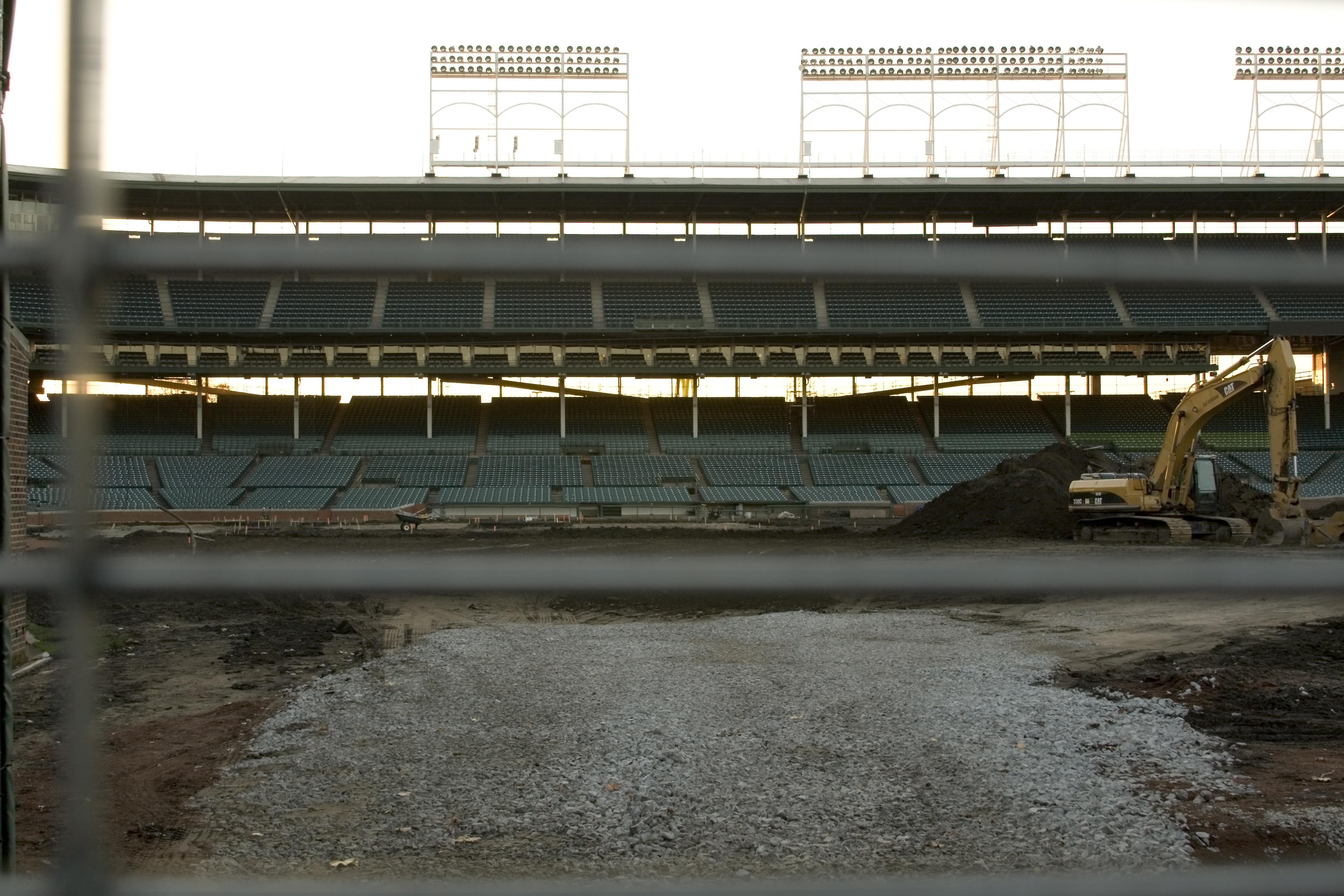 Wrigley Field through its right field fan window during the 2007 turf replacement/drainage installation. 17:54, 28 November 2007 . . RMelon . . 3,851×2,568 (4.47 MB)